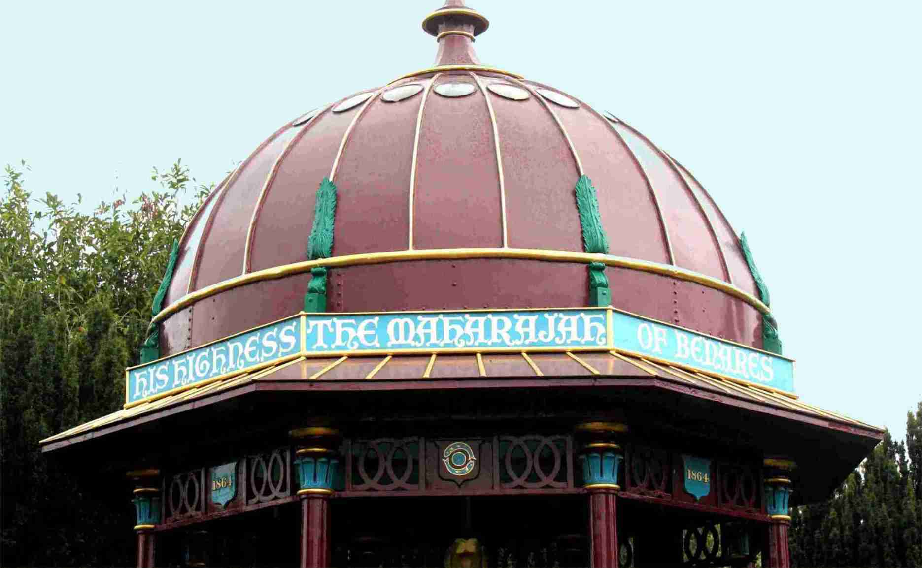 Maharajahs Well cupola.